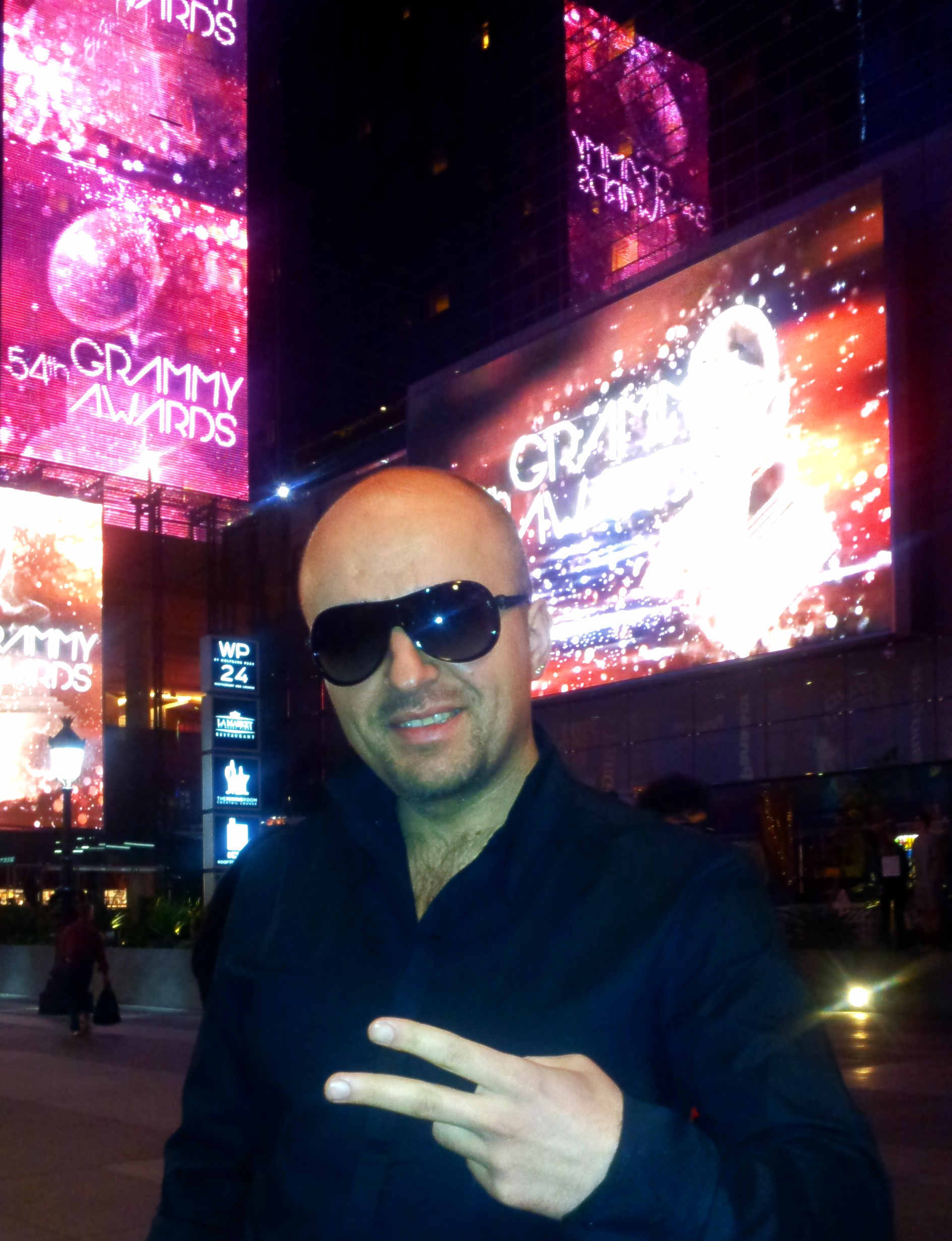 Costi Ioniță at The Grammy Awards, Los Angeles, 2012